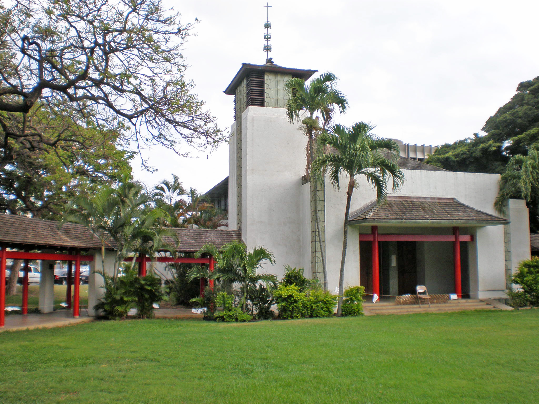 Sanctuary with steeple, Church of the Crossroads, 1212 University Avenue, Honolulu, Hawaii, on National Register of Historic Places, built 1935, architect Claude A. Stiehl